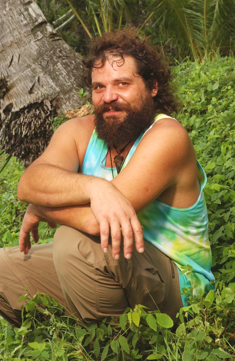 Rupert Boneham on the set of Survivor All-Stars. This image was used by permission by Rupert Boneham and CBS.